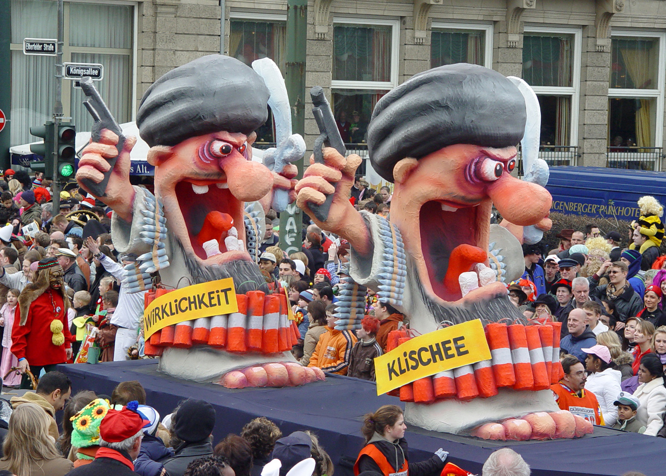 Stereotype and reality of suicide attackers, at Rosemonday-float in Düsseldorf, 2007. Photo and sculpture by Jacques Tilly.